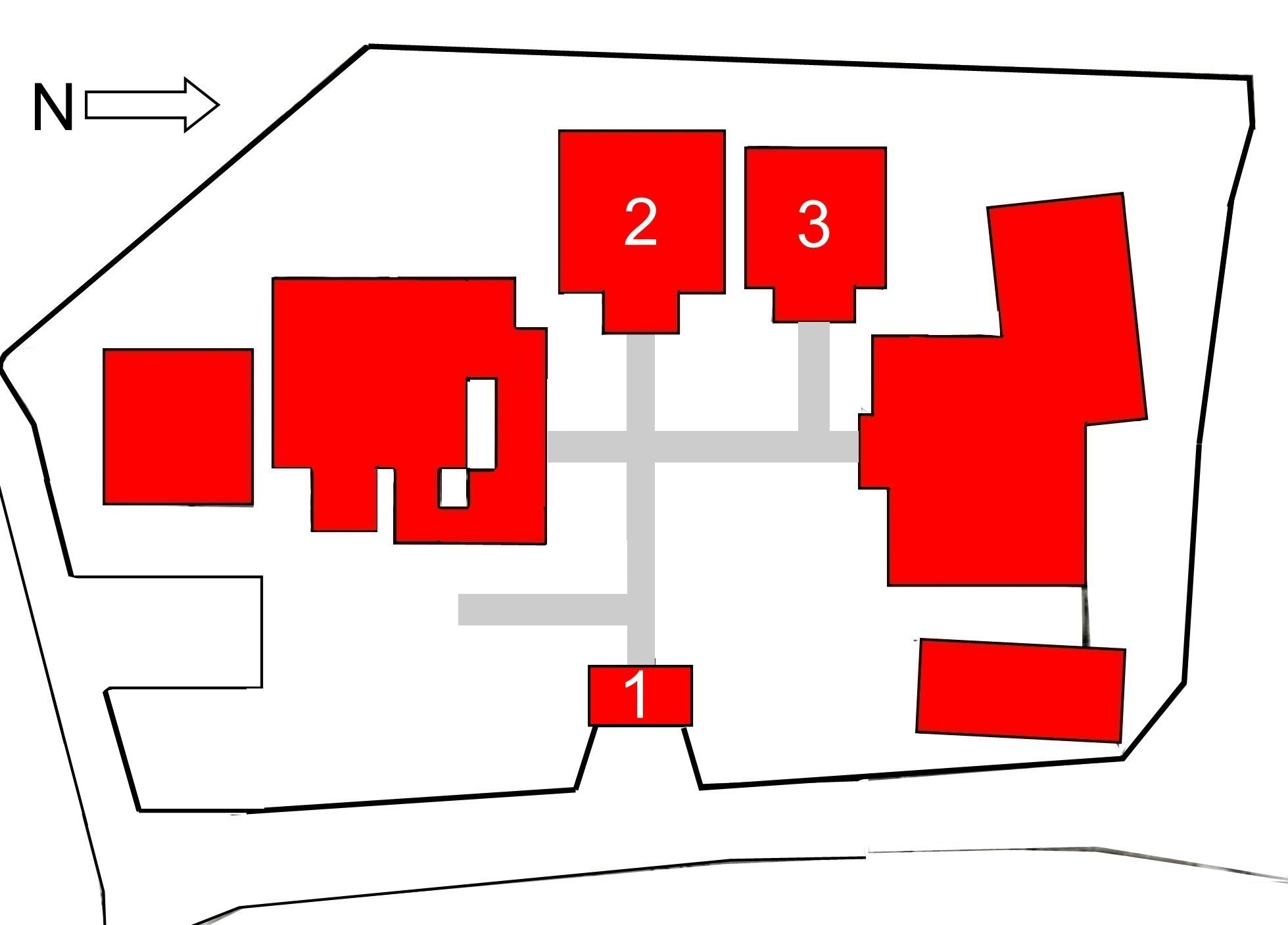 Layout of Horinji-tempel at Awa, Pref. Tokushima, Japan